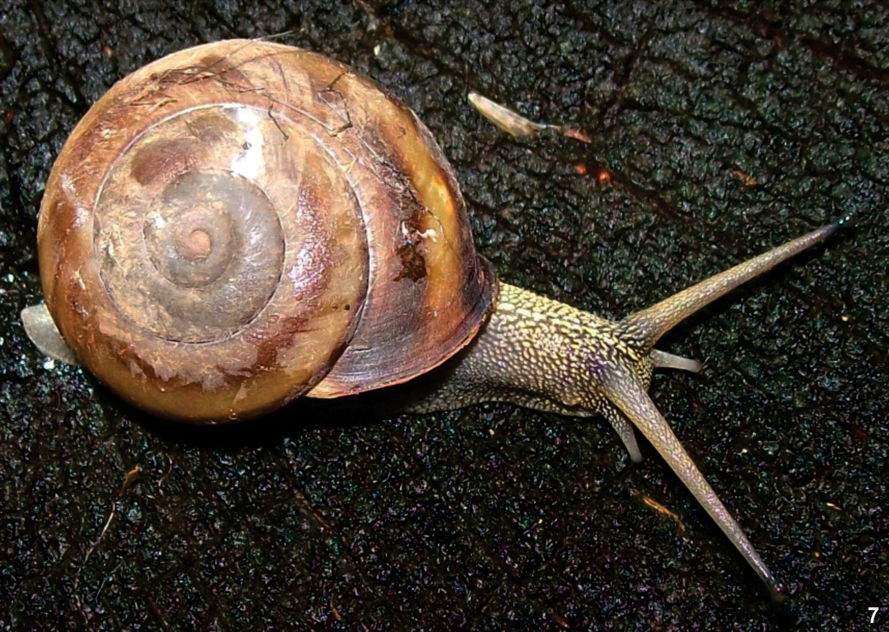 Photo of Minaselates paradoxa.